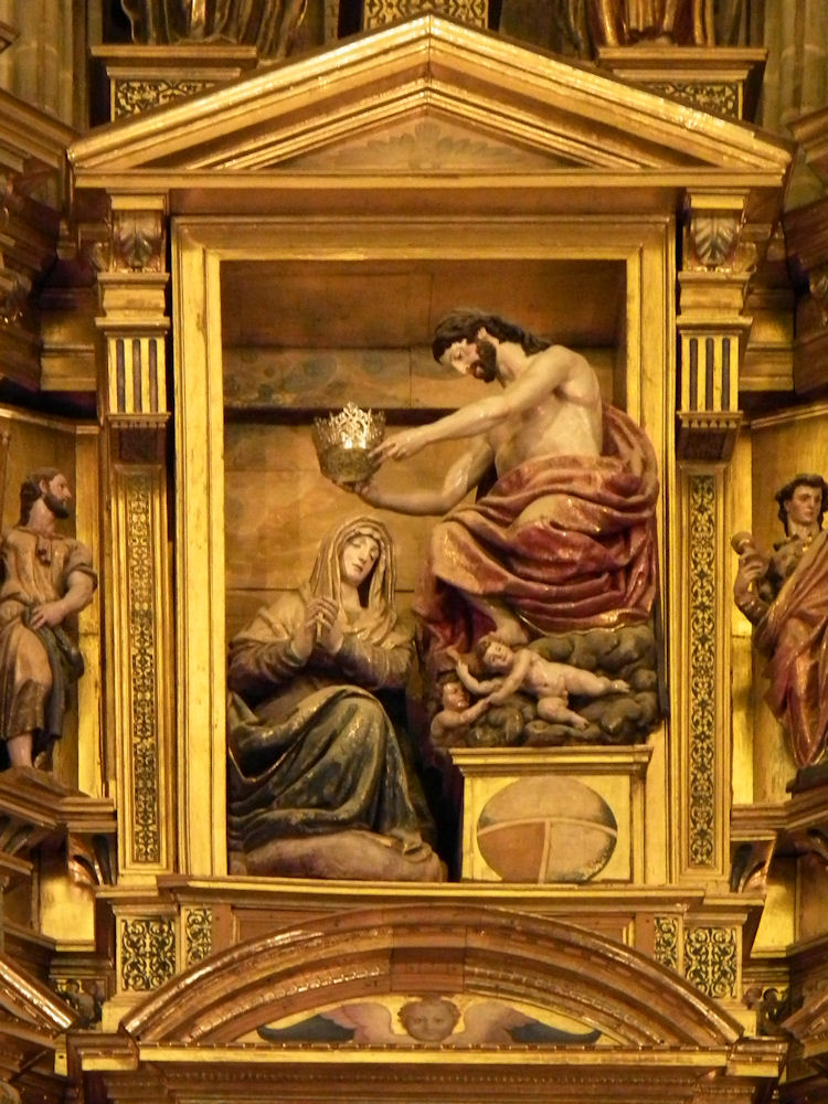 Details on the Main Altar of the Catedral de Santa María, Astorga, León, Spain